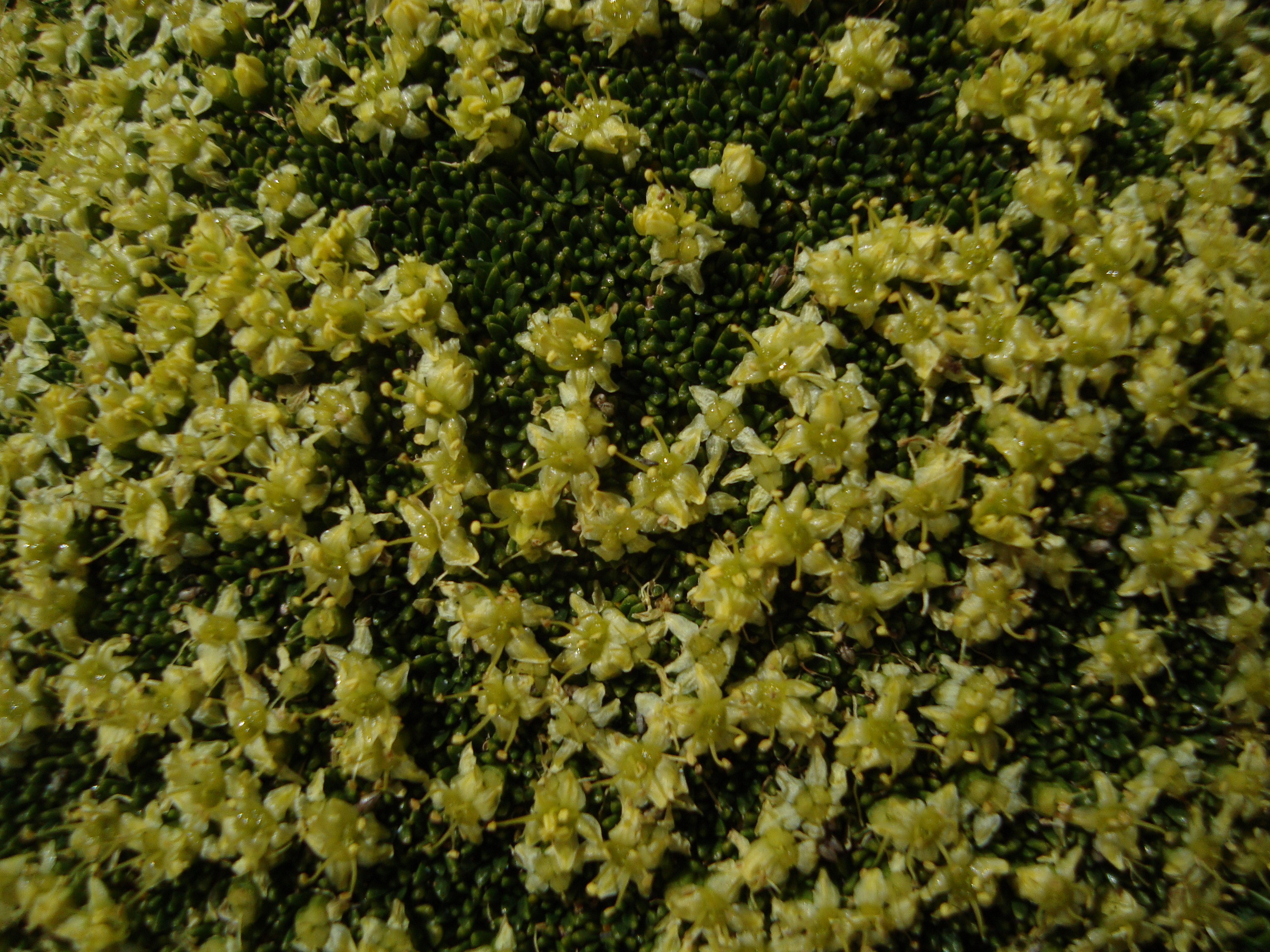 This and the next photo are of the same plant.